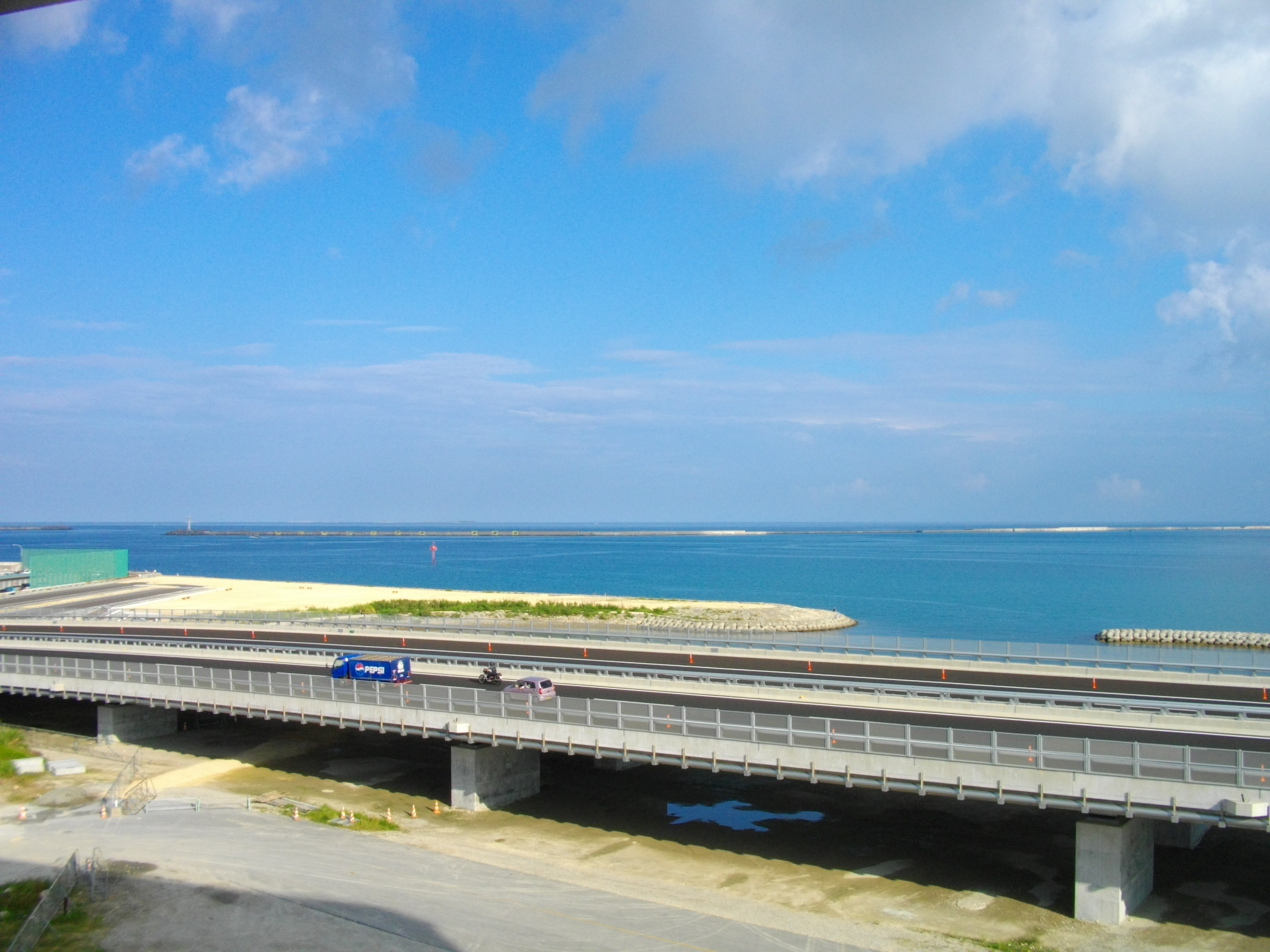 Naha Nishi Road